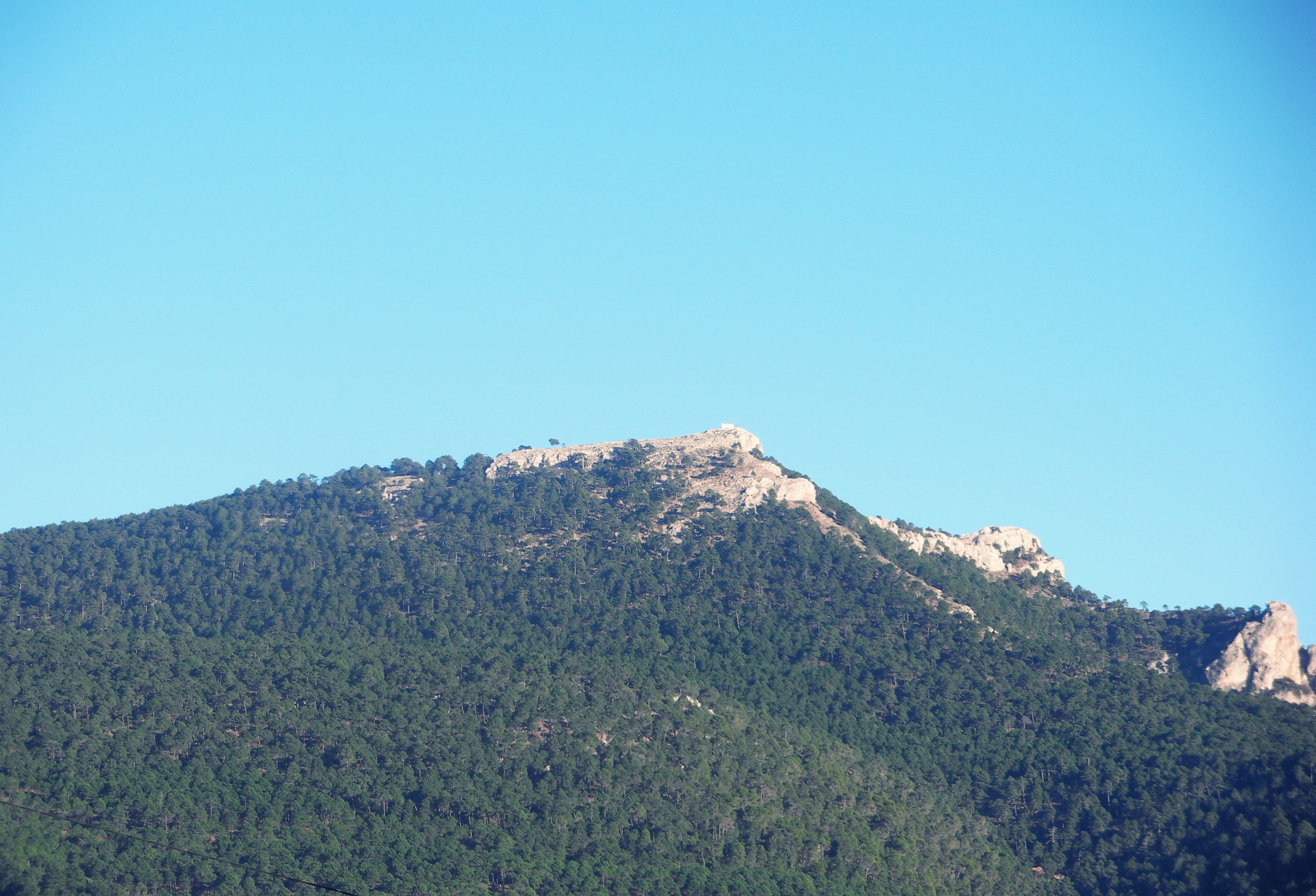 Siles